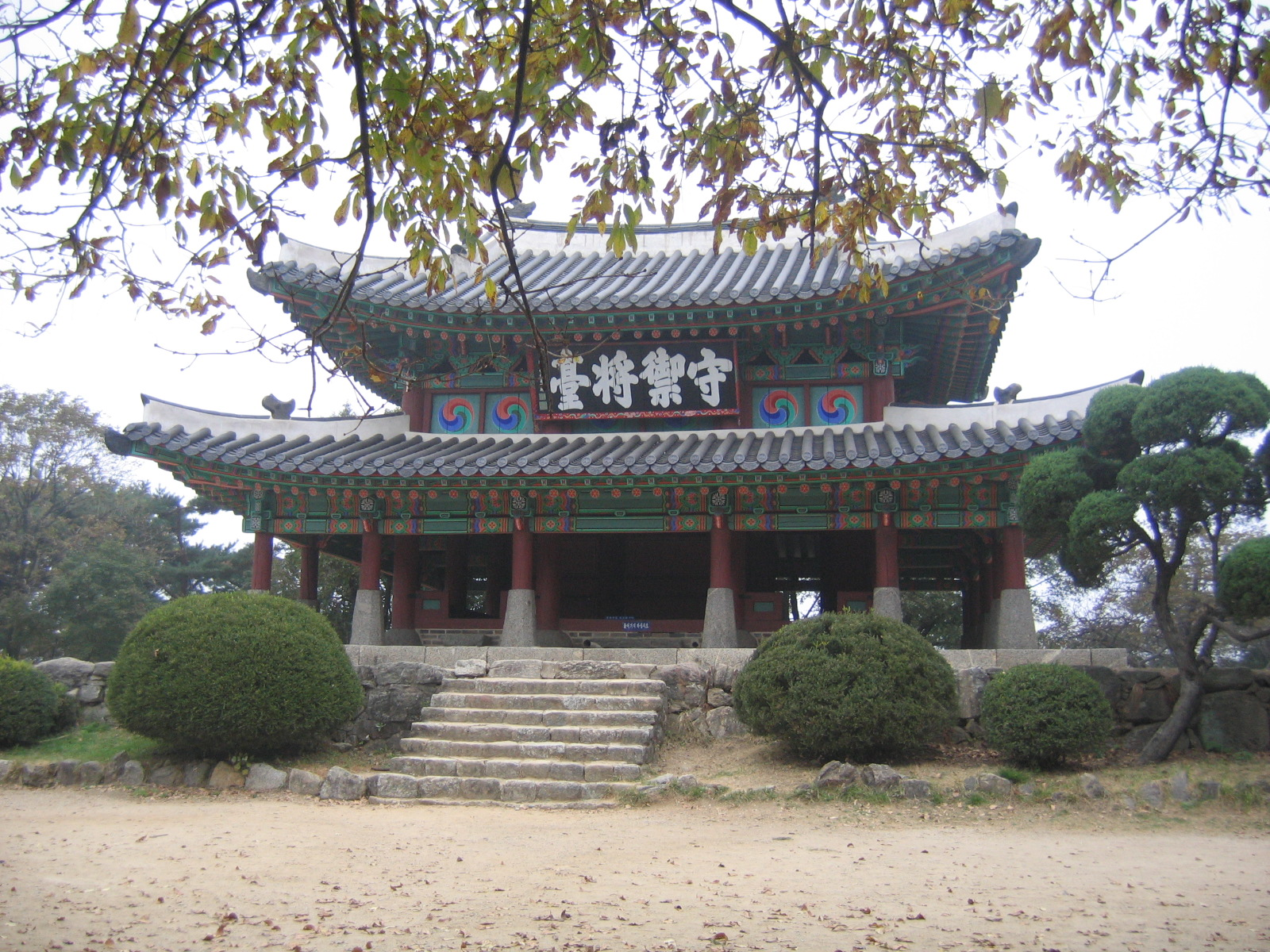 Namhan_Moutain_Castle